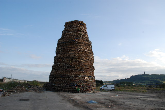 11th Night Bonfire Eastend Bonfire Newtownards Canal Row 2009